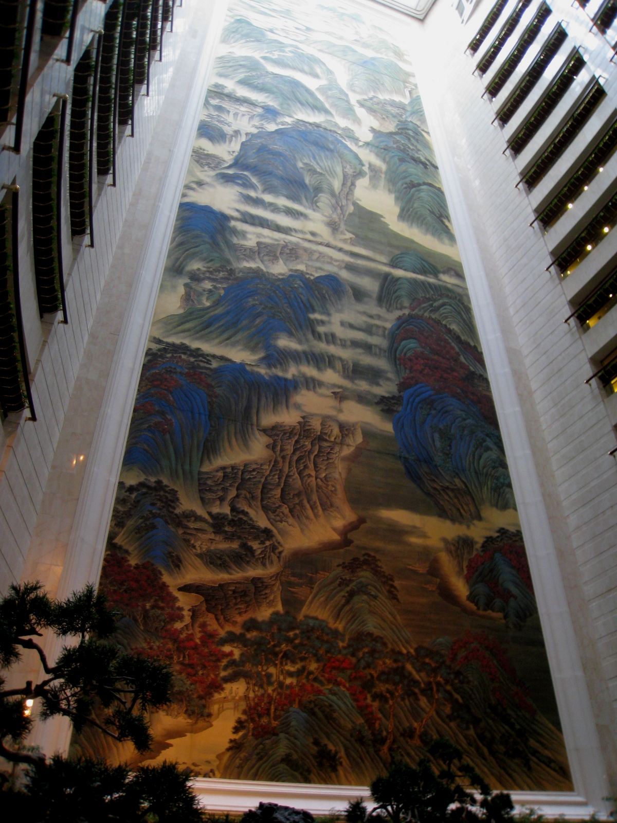 Island Shangri-La Hotel Great Motherland of China Mura 香格里拉酒店